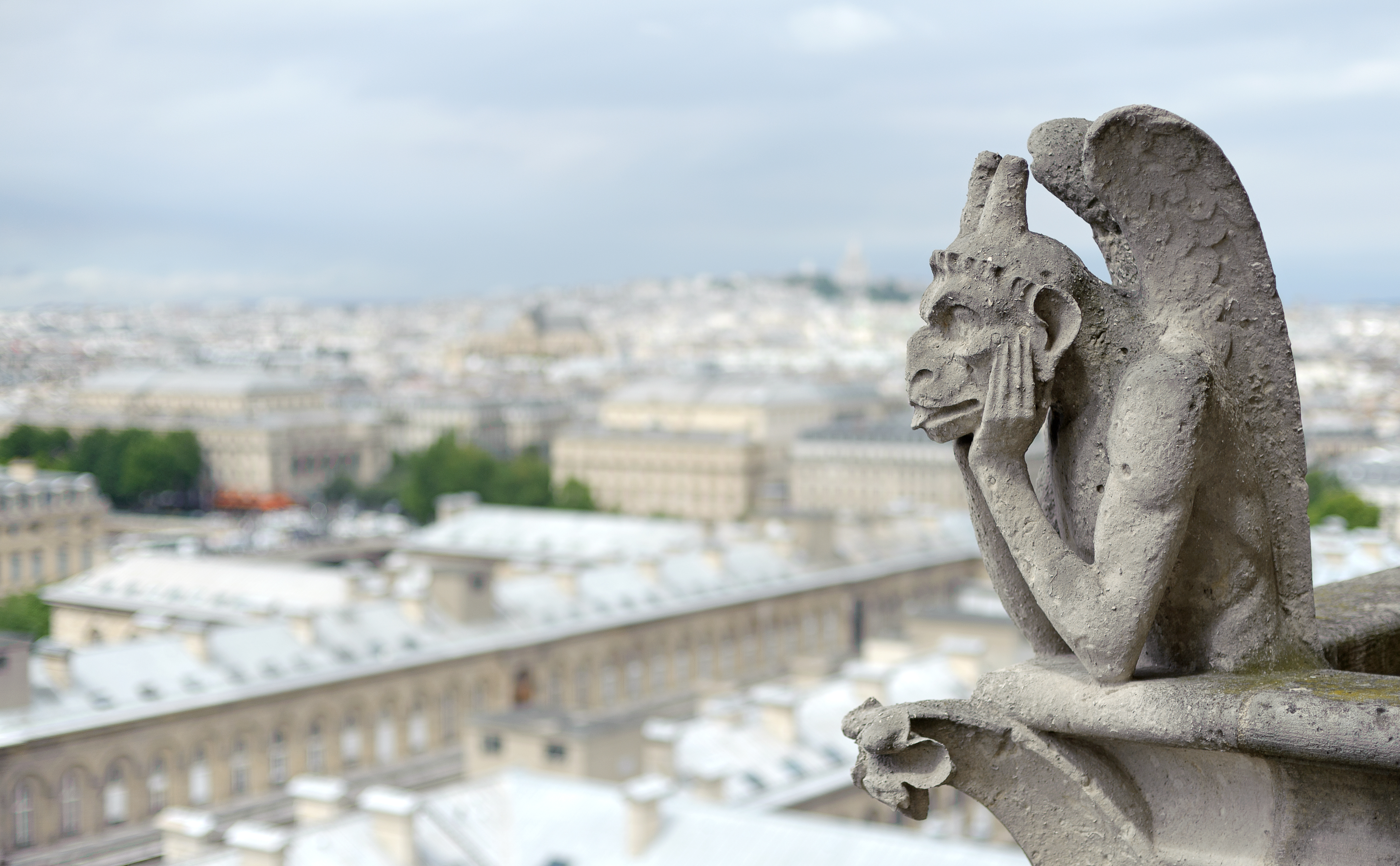 Bored Grotesque at Notre Dame de Paris